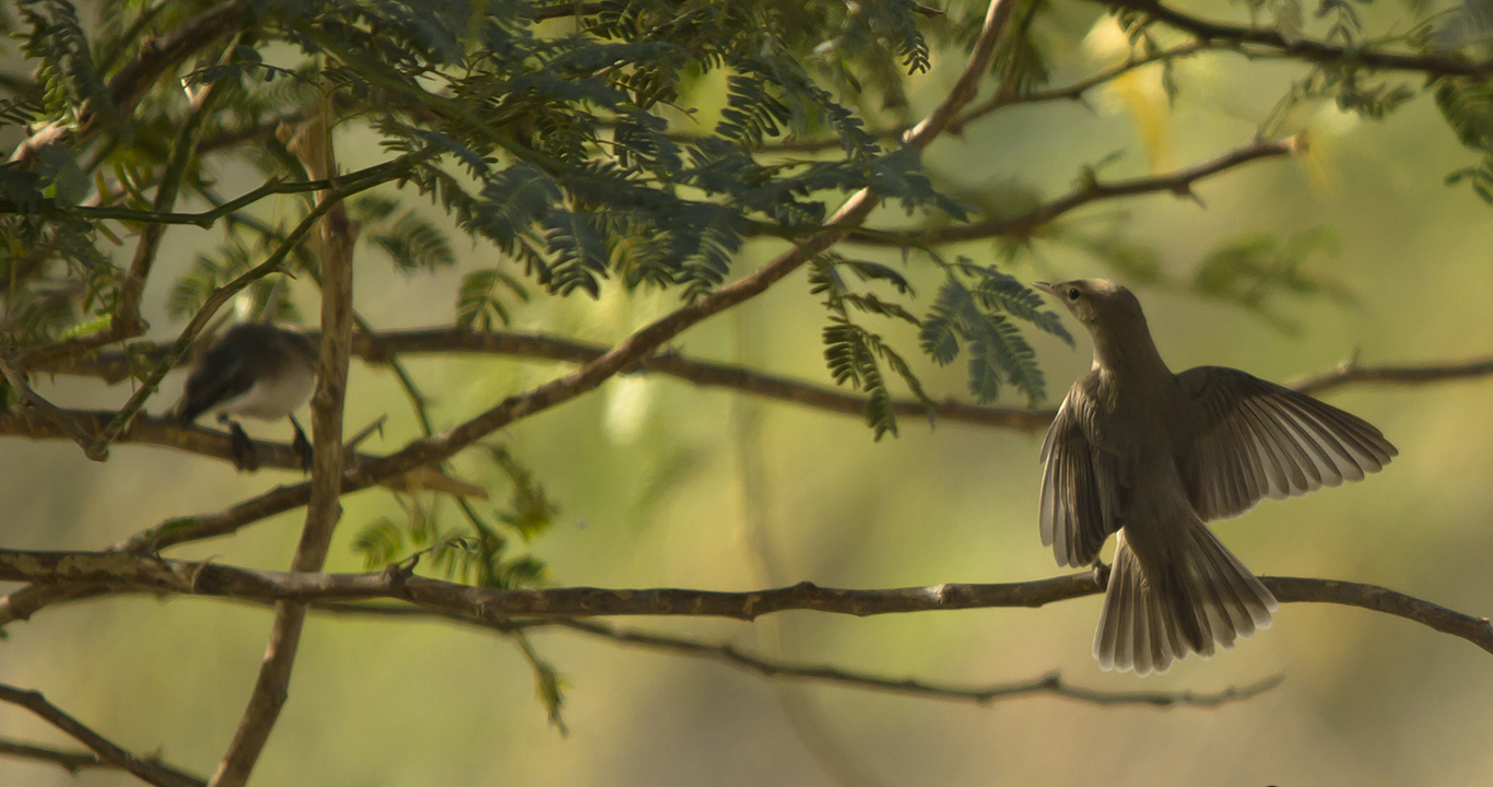 at Kutch